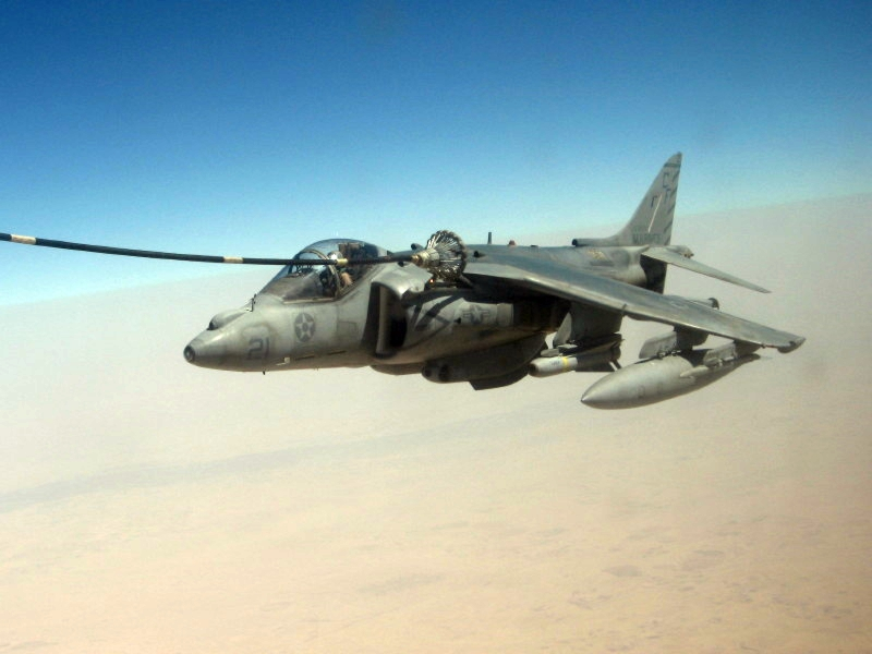 A U.S. Marine Corps McDonnell Douglas AV-8B Harrier II from Marine attack squadron VMA-211 Wake Island Avengers over Iraq on 23 September 2006.